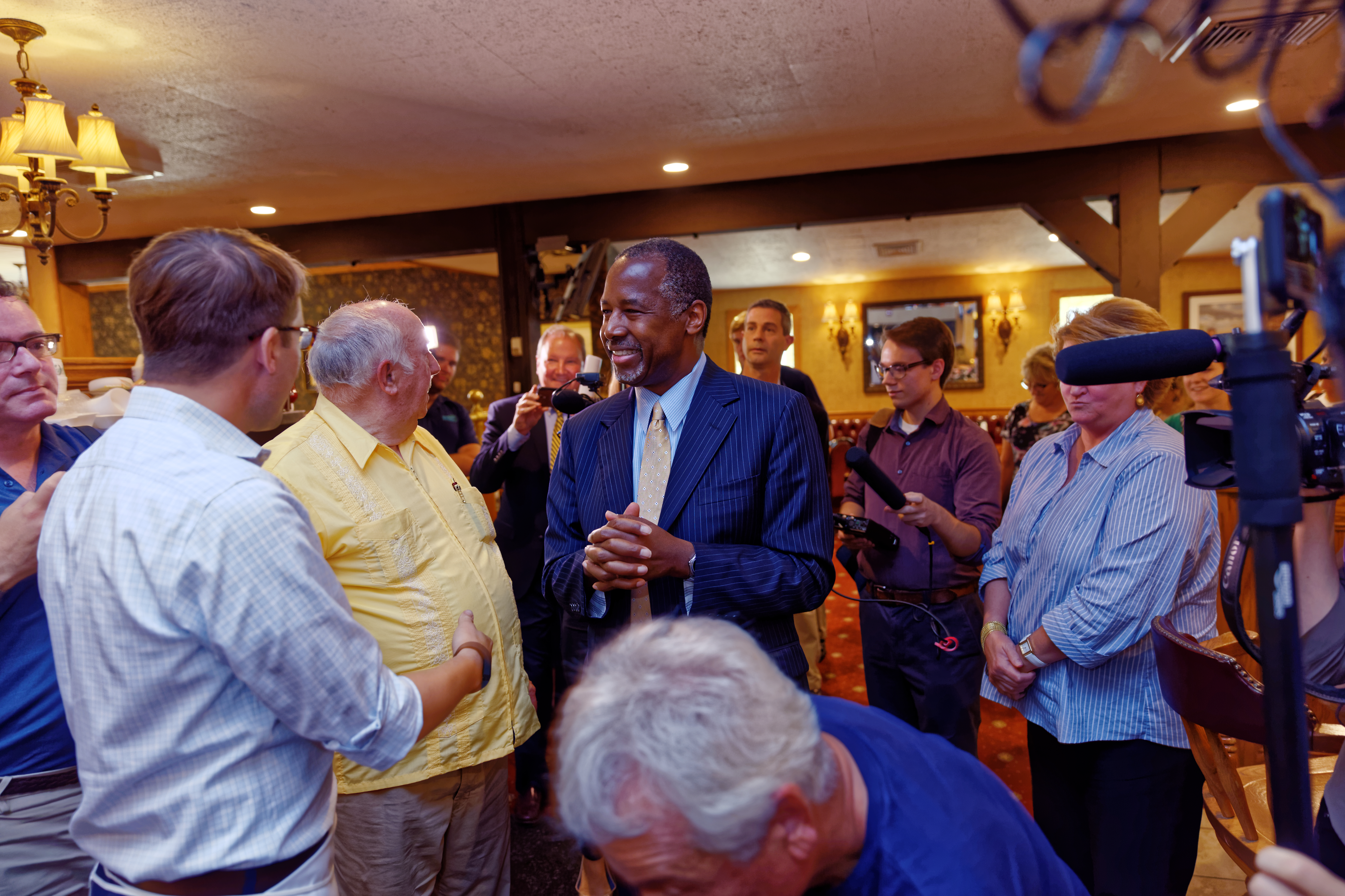 Benjamin Solomon "Ben" Carson, Sr. (born September 18, 1951) is an American author, political pundit, and retired Johns Hopkins neurosurgeon. On May 4, 2015, Carson announced he was running for the Republican nomination in the 2016 Presidential election at a rally in Detroit, his hometown. Carson was the first surgeon to successfully separate conjoined twins joined at the head. In 2008, he was awarded the Presidential Medal of Freedom by President George W. Bush. After delivering a widely publicized speech at the 2013 National Prayer Breakfast, he became a popular conservative figure in political media for his views on social and political issues. Ben Carson Visits New Hampshire on Thursday, August 13, 2015 Thursday, August 13, 2015 11:40 a.m. - 12:20 p.m. EDT Walk Through Puritan Backroom Restaurant 245 Hooksett Road Manchester, NH 1:10 p.m. - 2:35 p.m. EDT Hooksett Town Hall Meeting American Legion Post 37 5 Riverside Drive Hooksett, NH 5:30 p.m. - 6 p.m. EDT Londonderry Old Home Day 14th Annual Kidz Night Londonderry Town Common Londonderry, NH 7:15 p.m. - 8:45 p.m. EDT Windham Town Hall Meeting Castleton Banquet and Conference Center 92 Indian Rock Road Windham, NH